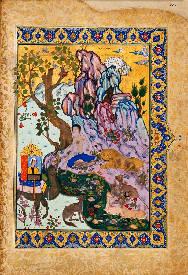 Leyla u Majun, by Muzaffar Ali